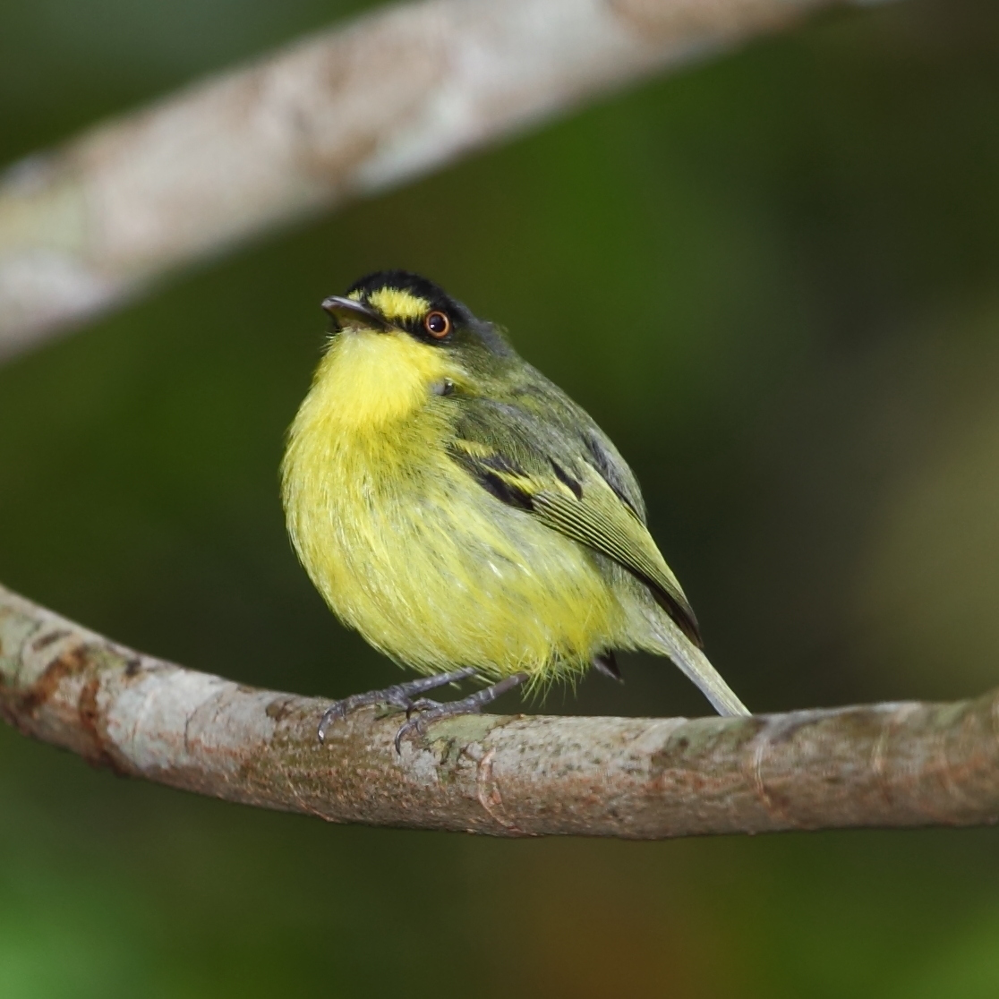 Yellow-lored Tody-Flycatcher at Bertioga - SP - Brazil